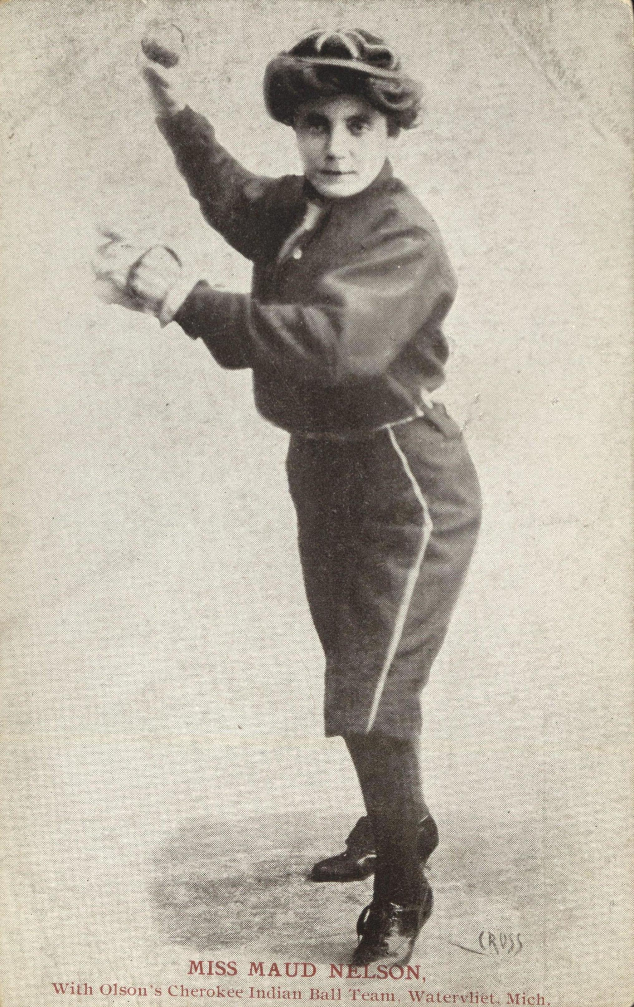 Description: Images of baseball, basketball, and bicycling. Repository: Schlesinger Library on the History of Women in America. Collection: Collection of Sally Fox, 1575, 1667-2005 (inclusive), 1860-1929 (bulk) Call Number: MC 638 Catalog Record: Questions? Ask a Schlesinger Librarian